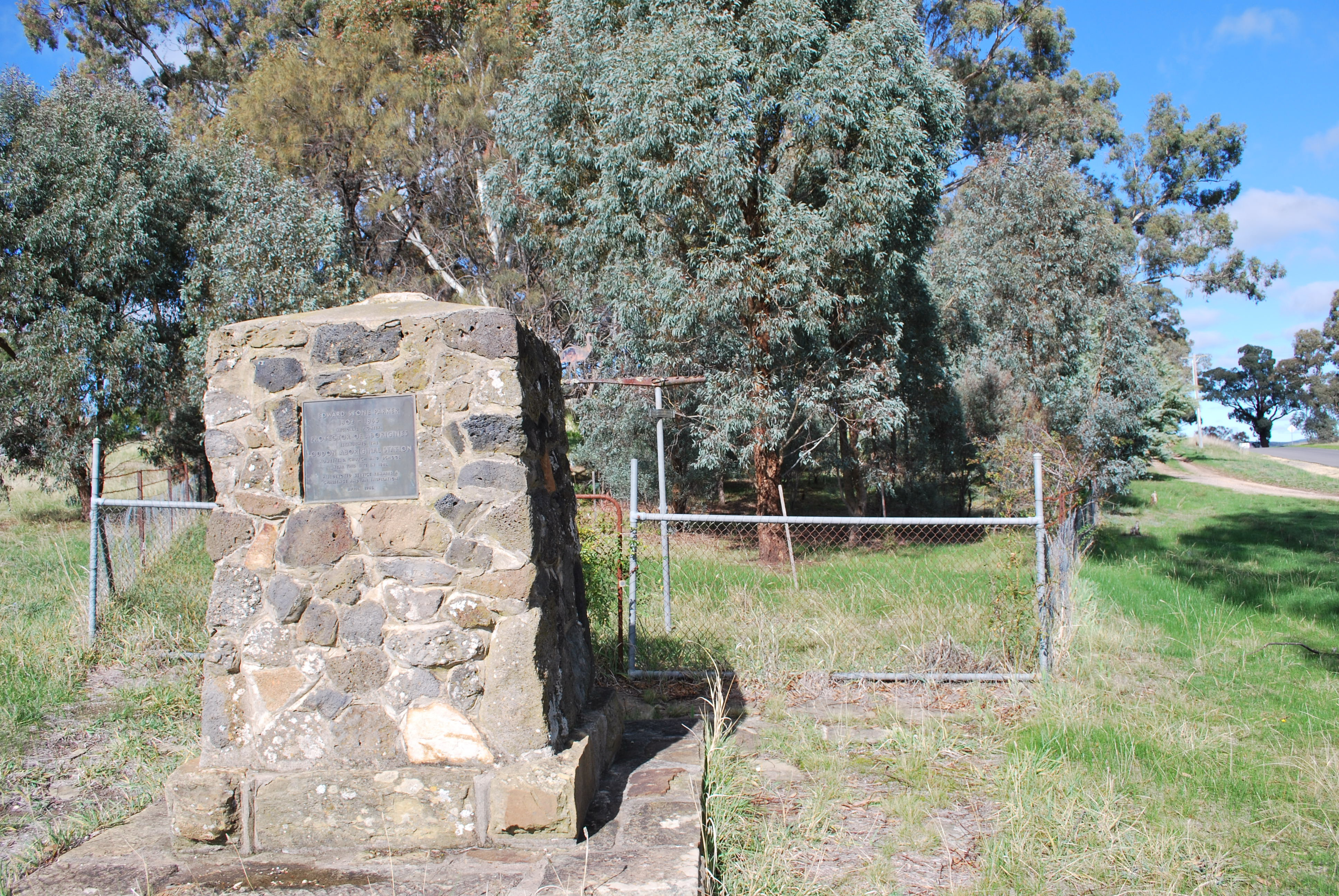 Monument recognising the site of the Aboriginal mission at Franklinford, Victoria